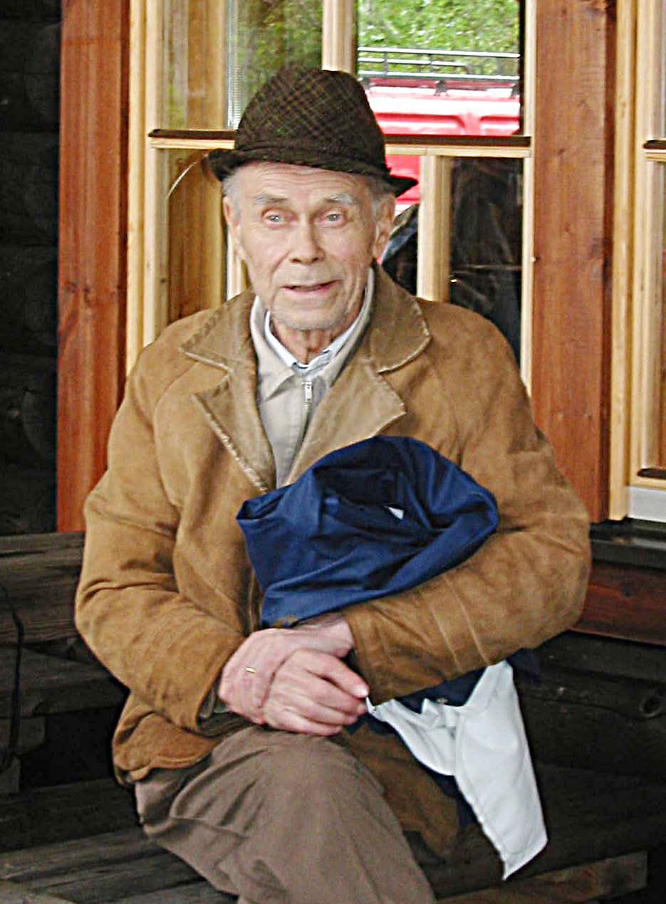 Veikko Huovinen, a Finnish author. Photographed in Lentua, Kuhmo, Finland, in a press event conducted in the last days of the photography of the film "Havukka-ahon Ajattelija".